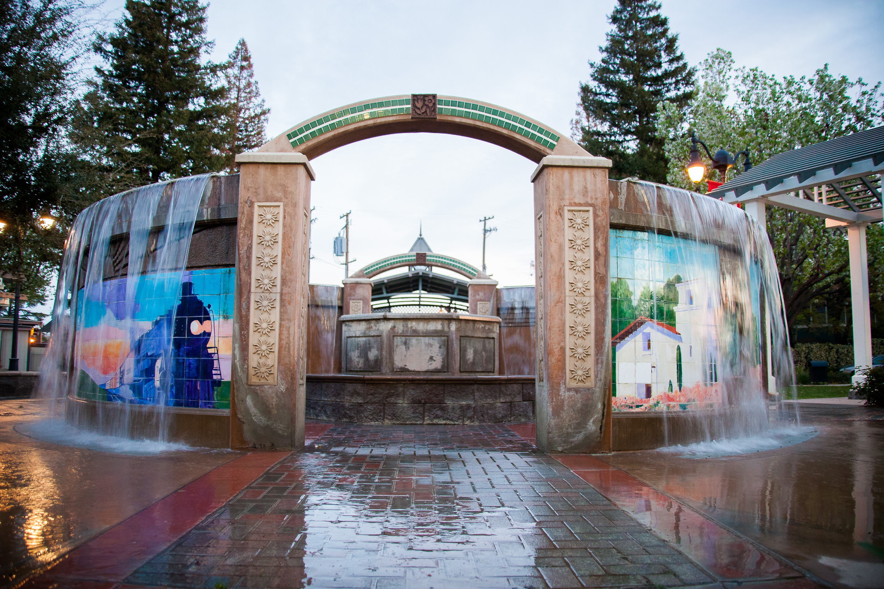 Fountain found in downtown Shafter